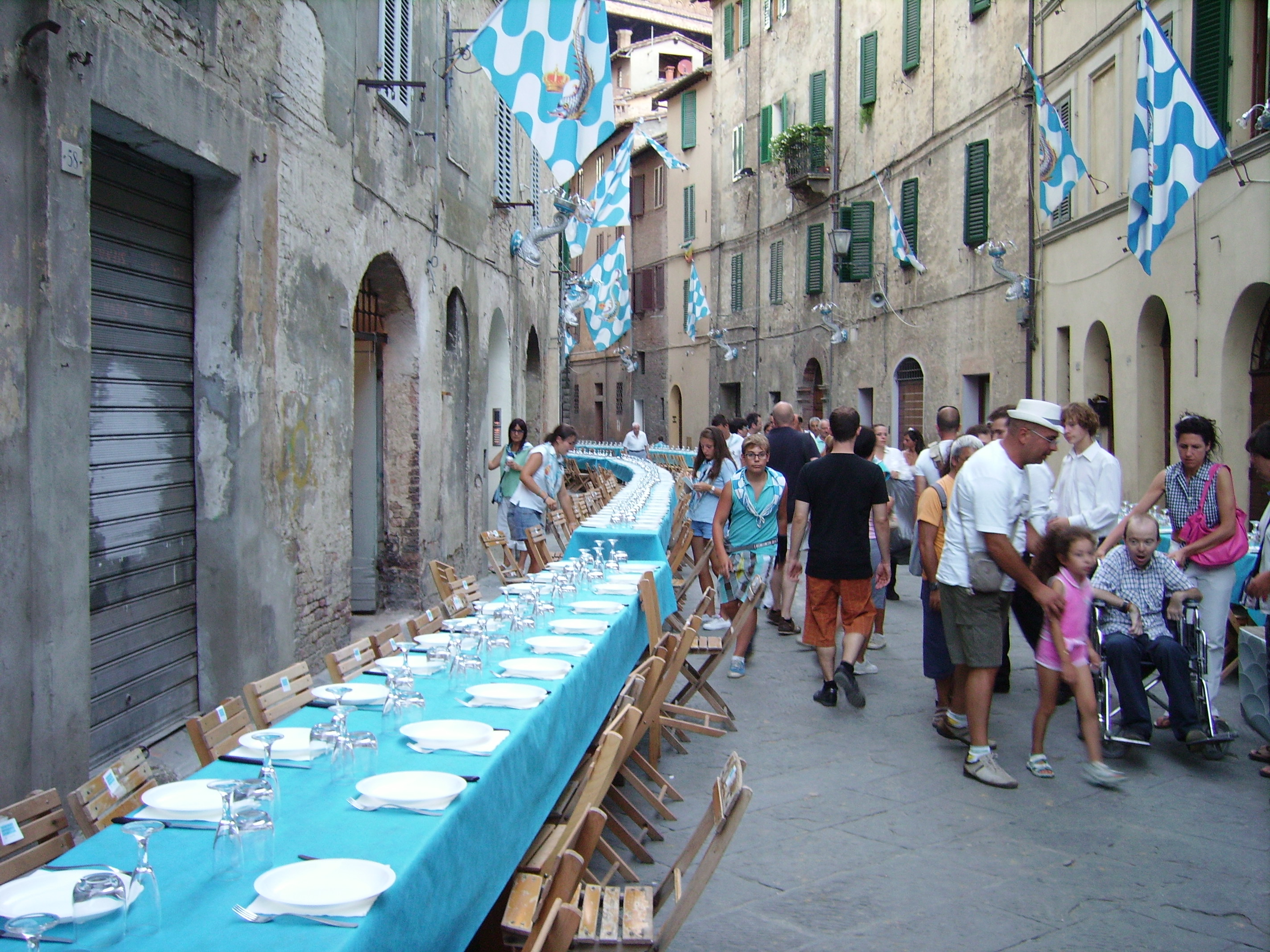 Tables laid out for the street parties on the night before the race